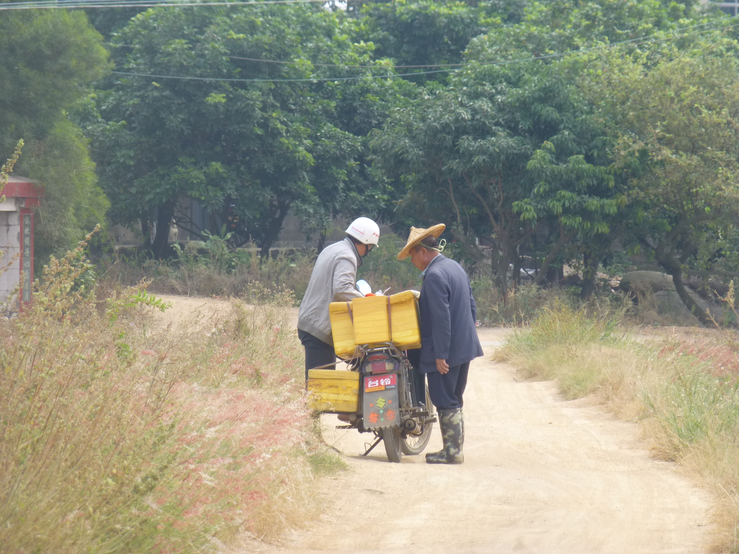 A rural landscapr in Shentu Town, Zhangpu County, Fujian, Somewhere east of Shanwei Village 山尾村